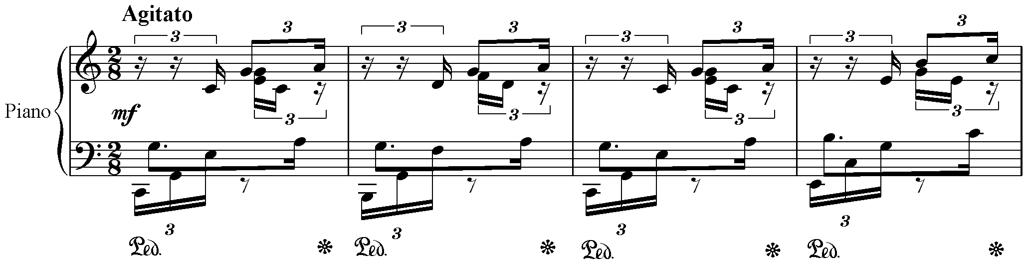 4 first bars of Chopins prelude 1 op. 28